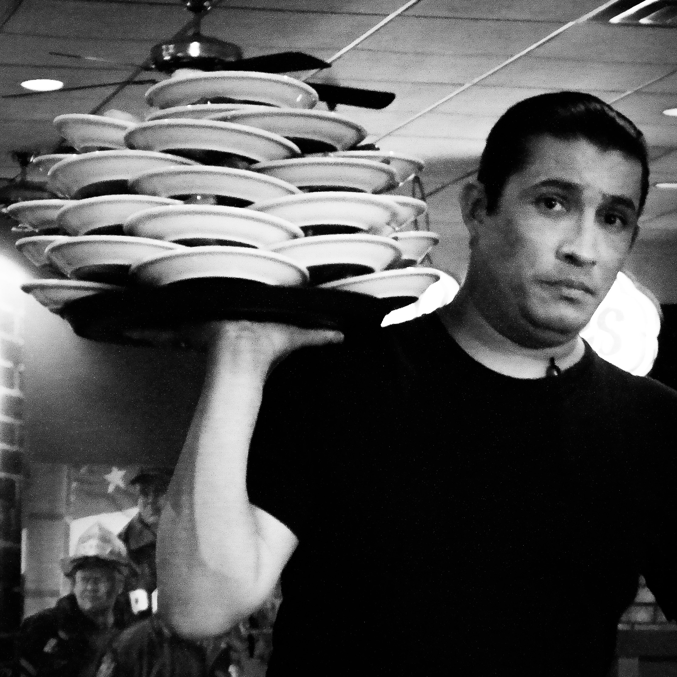 A busy waiter delivers appetizers during the dinner rush.